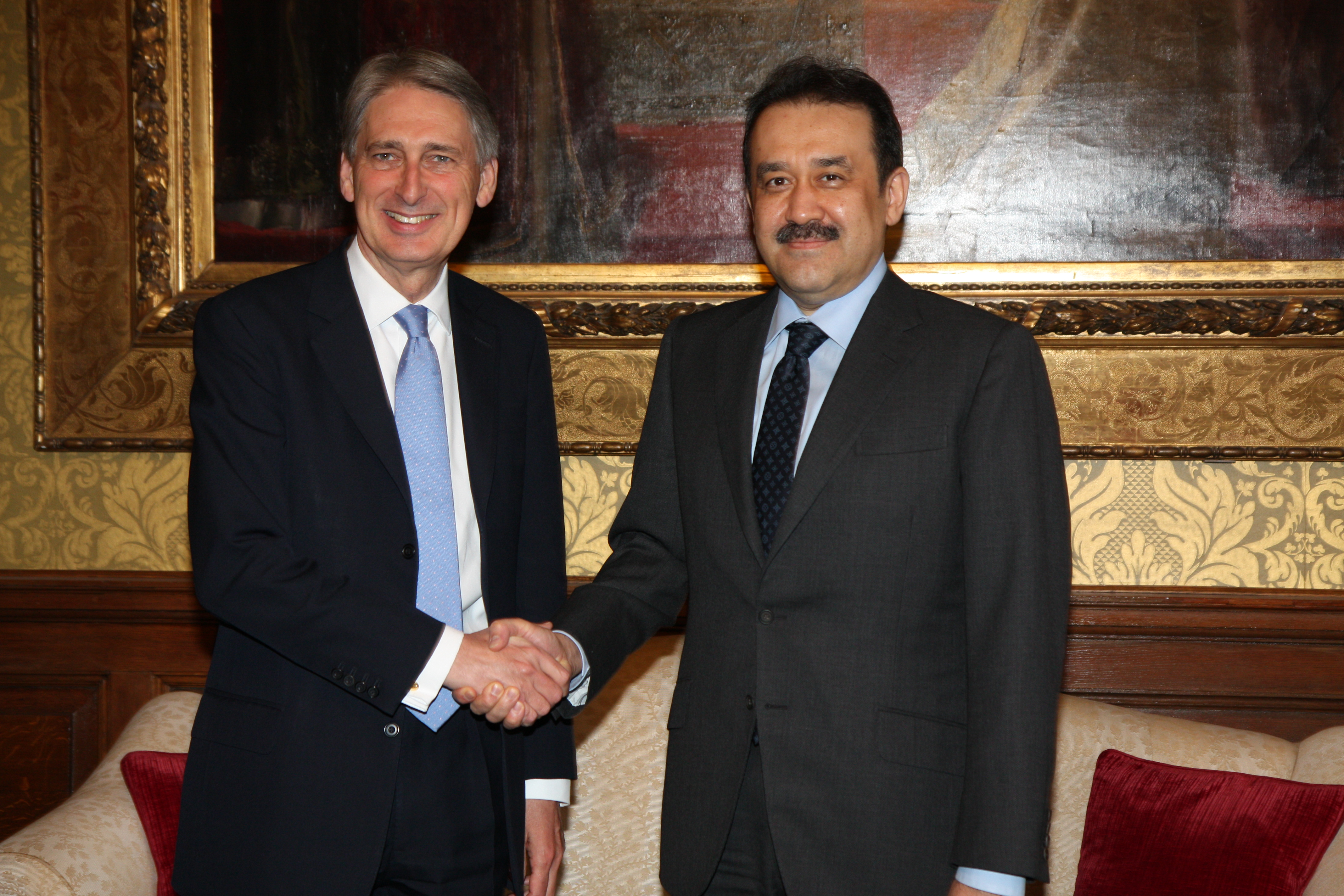 Foreign Secretary Philip Hammond meeting Prime Minister of Kazakhstan Karim Massimov in London, 24 February 2015.